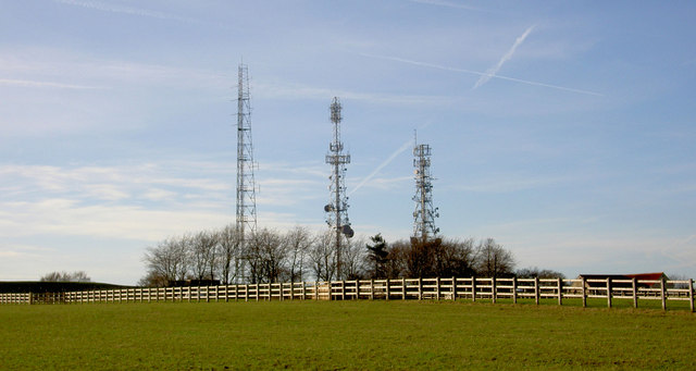 Beacon hill telecoms masts